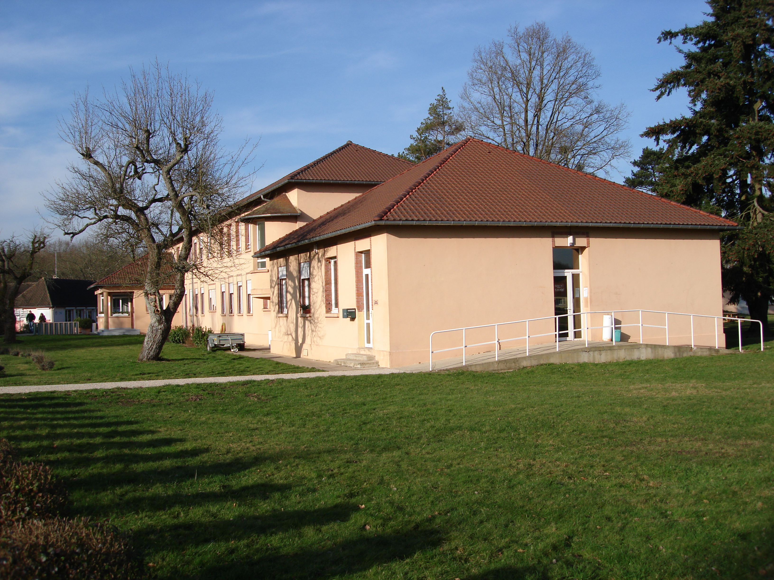 Clinique d'Yveline is a private hospital located in Vieille-Église-en-Yvelines, France.